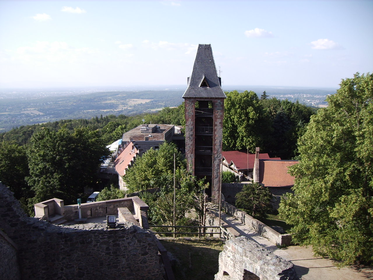 Overview of Burg Frankenstein